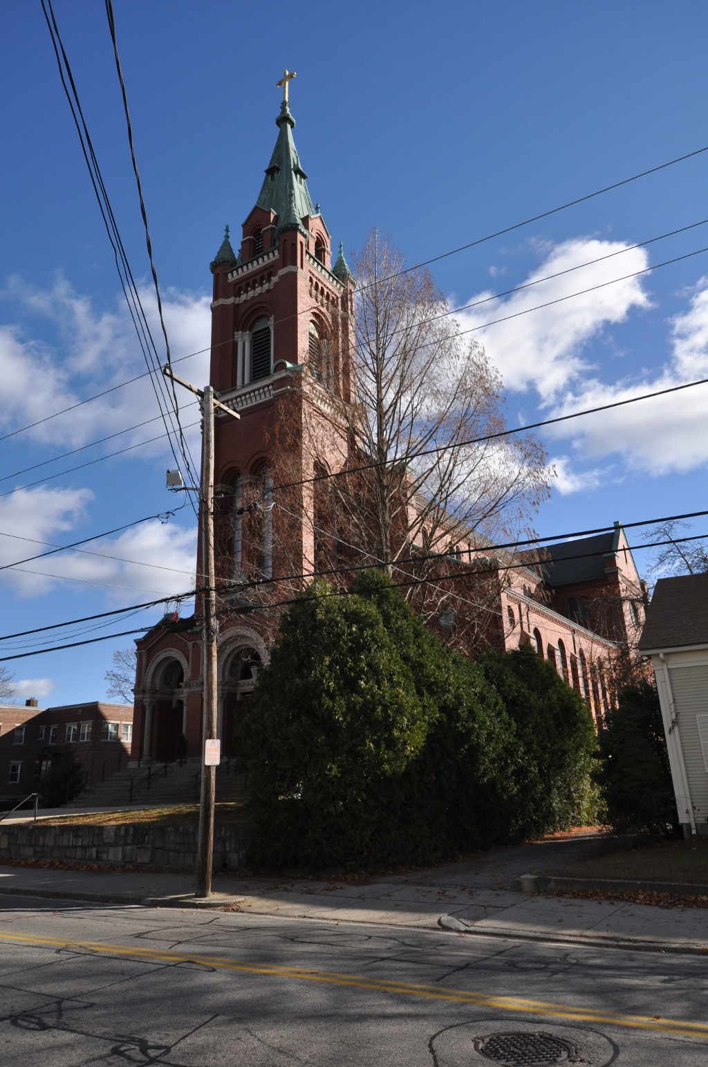 The Holy Family Church on South Main Street, Woonsocket, Rhode Island.